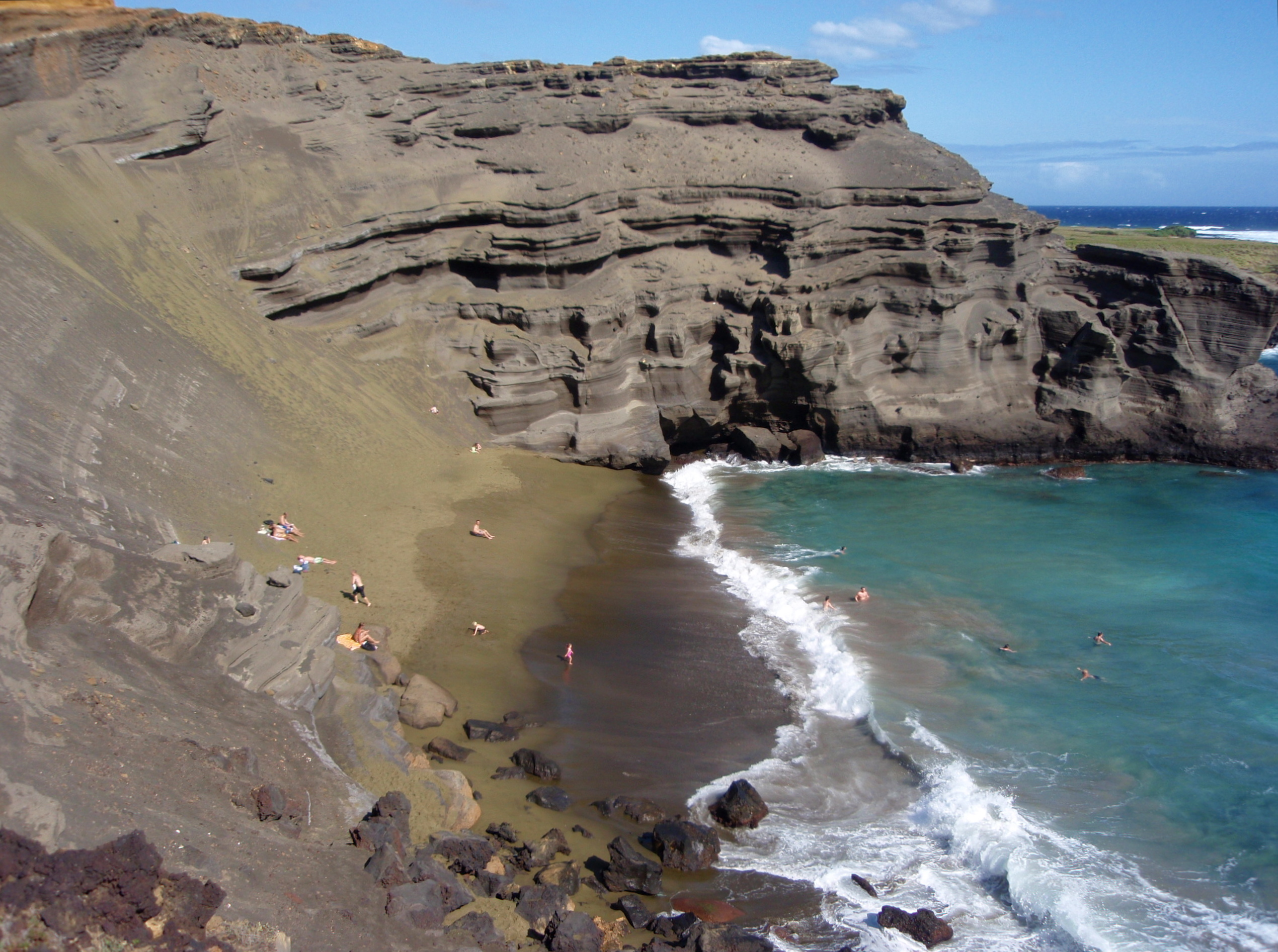 Looking down on Papakolea Beach from the cinder cone above.